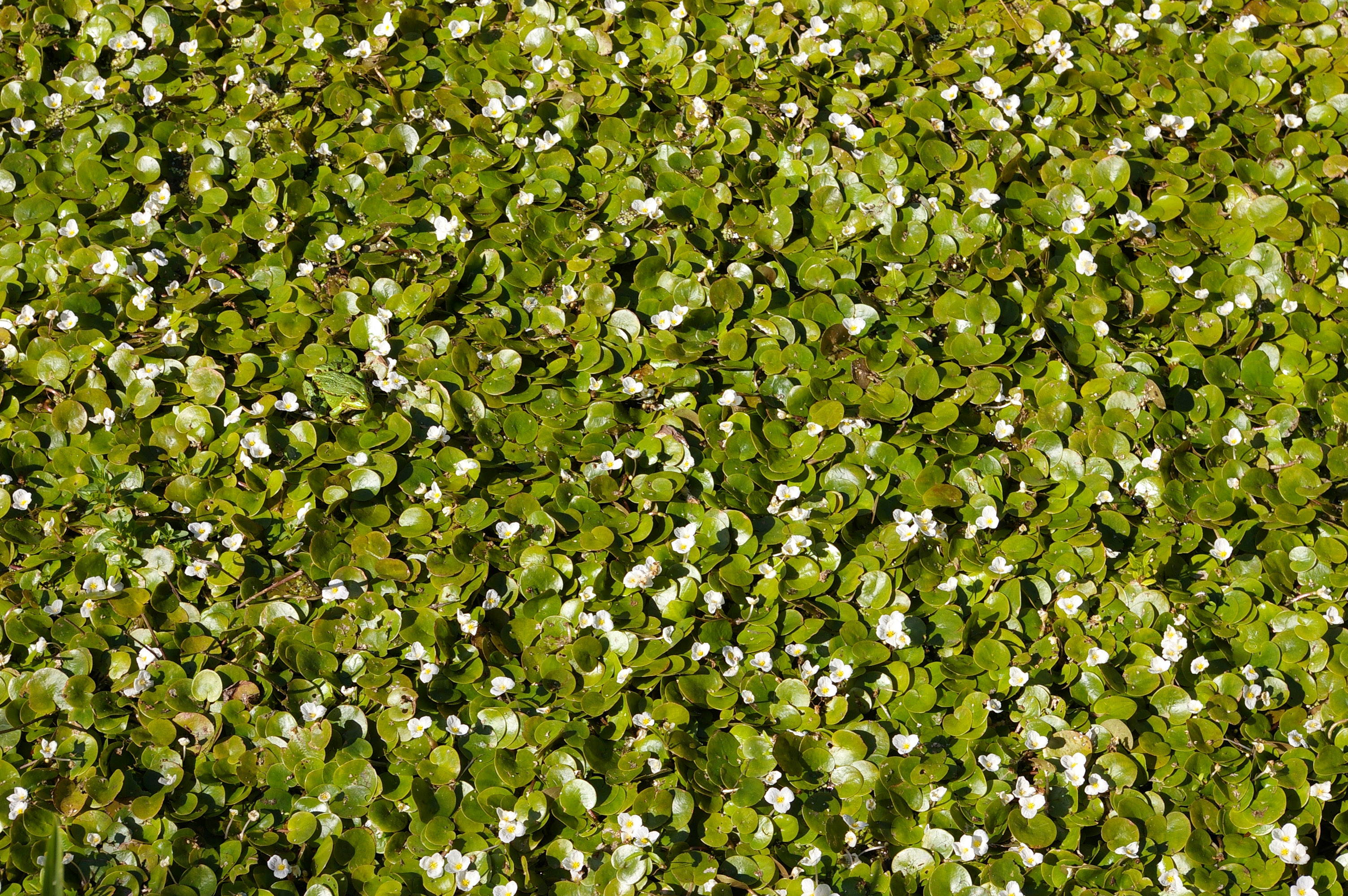 The European Frogbit, Hydrocharis morsus-ranae, is able to cover the whole surface of a water (this is a ditch in the Elbe floodplains). Who finds the frog?